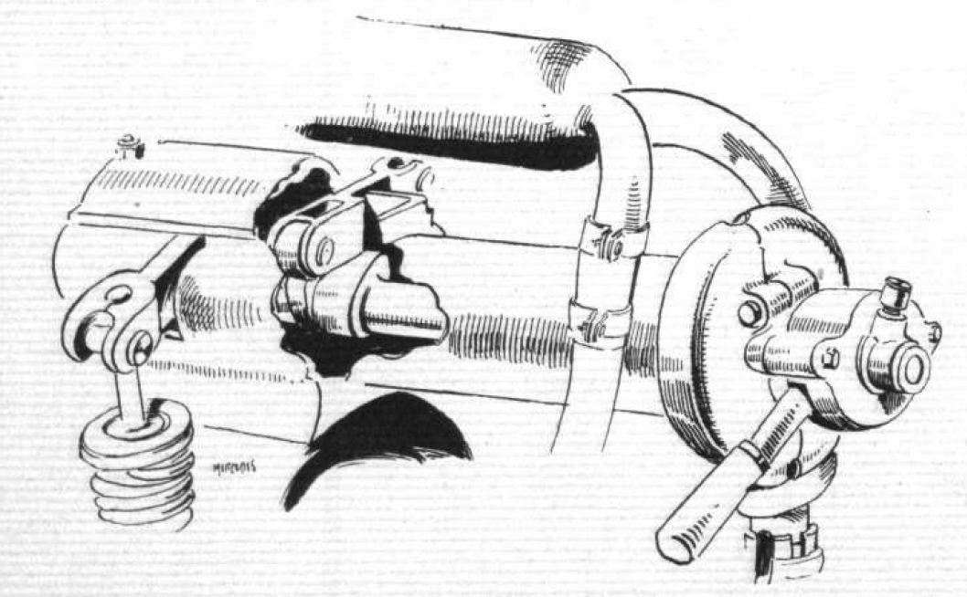 Details of the original SOHC valvetrain for the earliest examples of the German Mercedes D.III aviation engine - note the rocker arm emerging from the "rocker box" through a slot in the box's side, later replaced with front-side rocker arm rotary driveshafts to eliminate the slotted arm aperture.